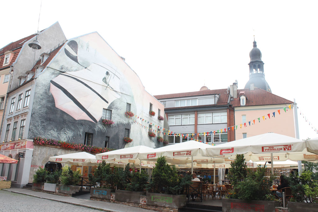 The image shows a square in the city center of the city of Riga in Latvia.